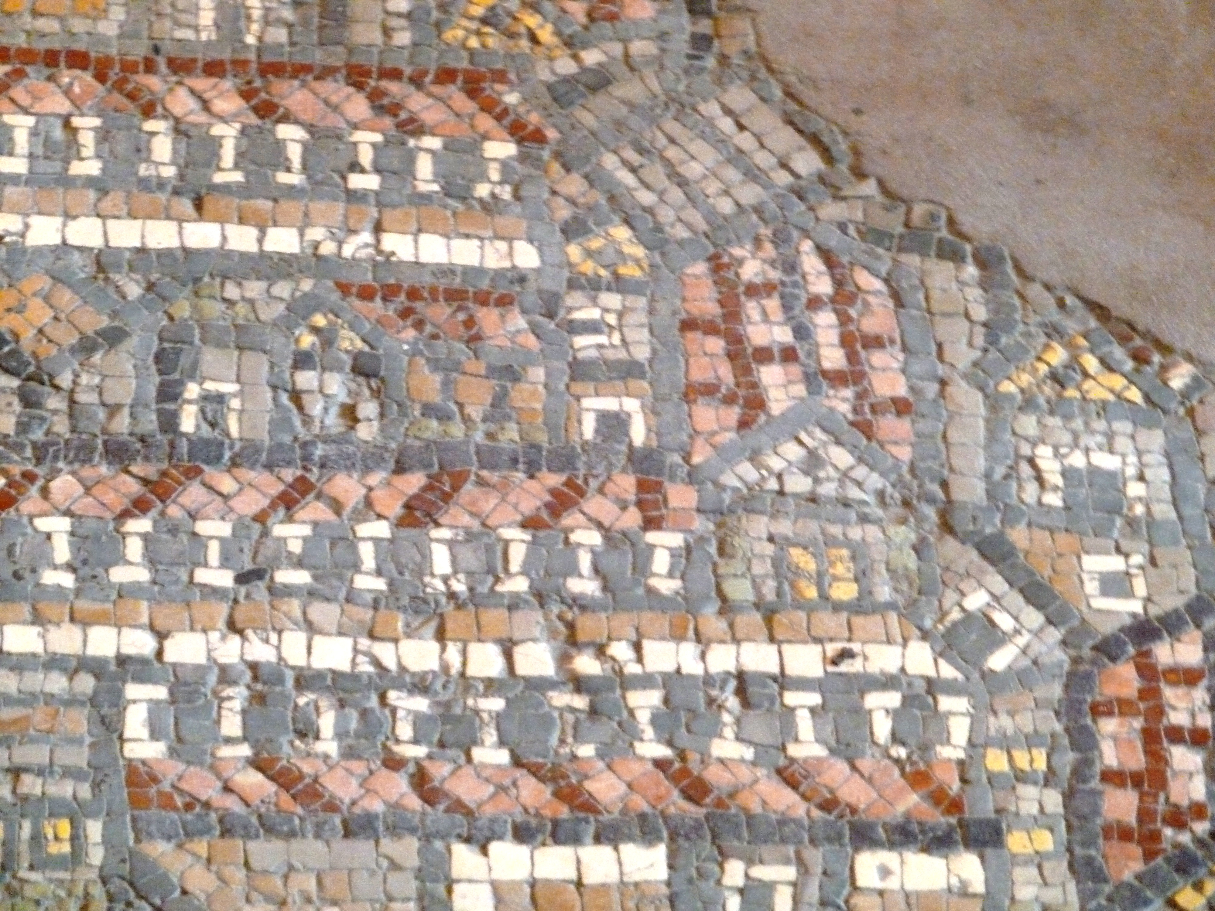 Byzantine floor mosaic map at St. George Church, Madaba, Jordan